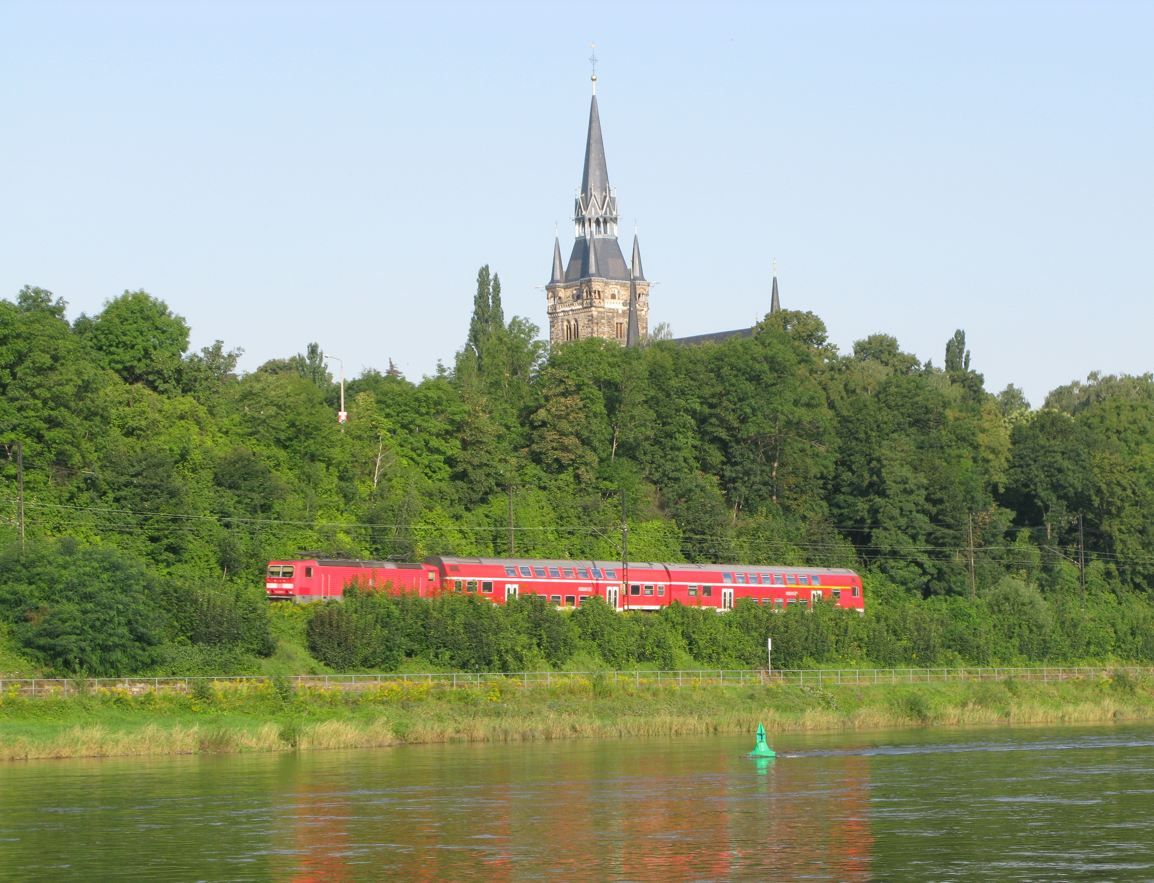 Regional train on railway line Berlin–Dresden within the Dresden city area. The river Elbe is seen in the front and the church of Briesnitz in the back.